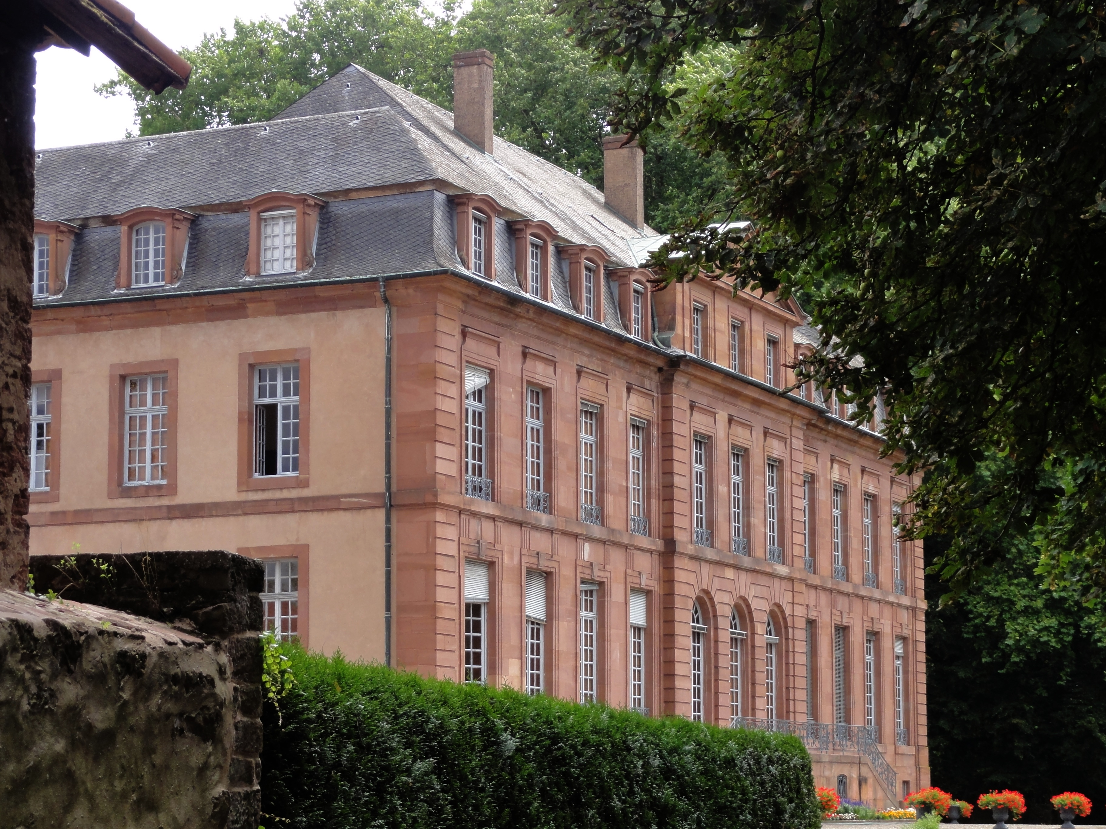 Alsace, Bas-Rhin, Reichshoffen, Château De Dietrich (1771): It is indexed in the Base Mérimée, a database of architectural heritage maintained by the French Ministry of Culture, under the references PA00084897 and IA00123282 .